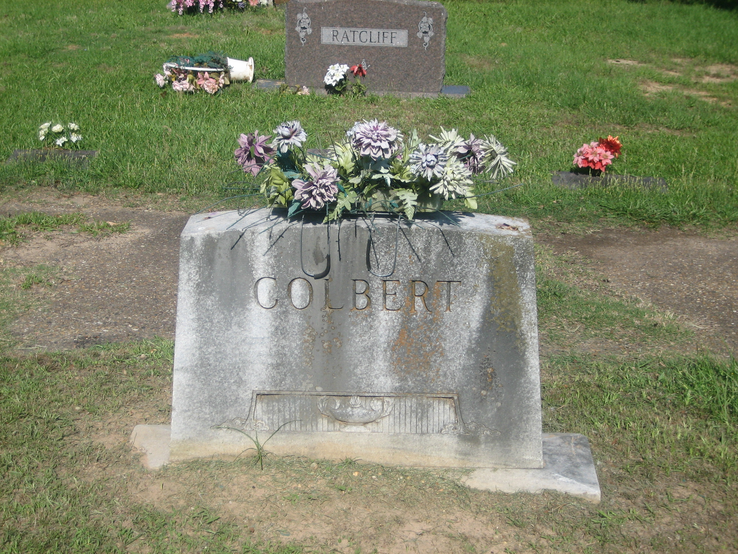 I took photo on May 21, 2009.